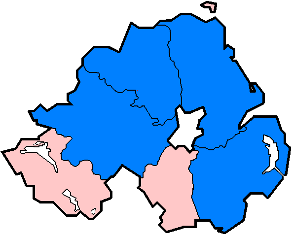 This image indicates in blue the non-administrative counties (1899 definition) affected by flooding on/by July 24th 2007. Every effort has been made to reduce error, and I apologise for any errors/omissions. Some areas with only minor damage have been omitted. Citations for the affected areas can be found here.